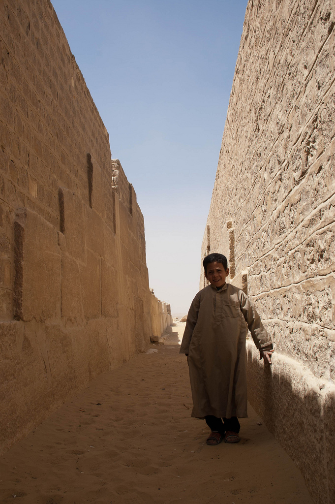 Young boy